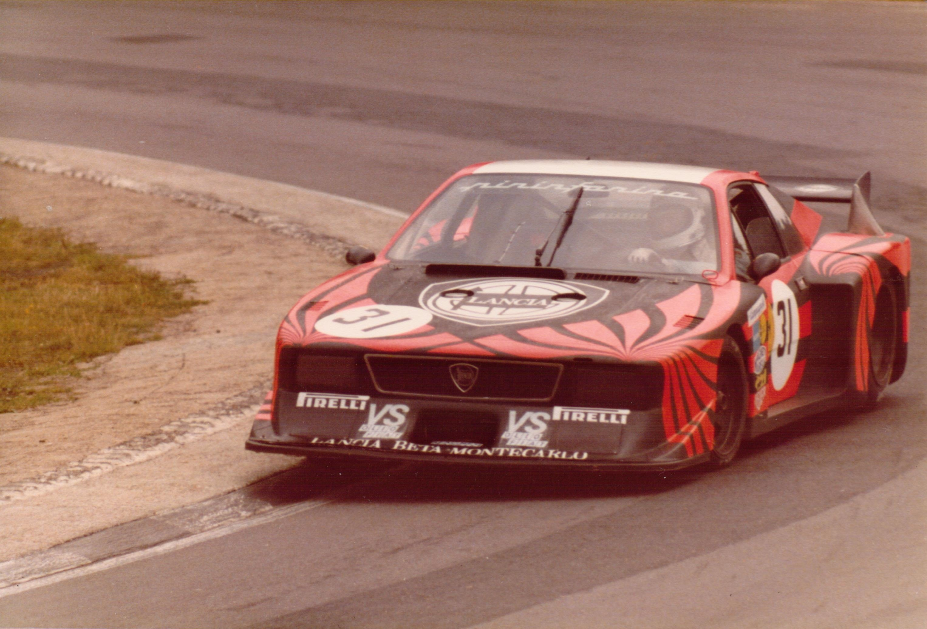 The Lancia Beta Monte Carlo of Patrese & Rohl at the Brands Hatch 6 Hour race on the 5th August 1979